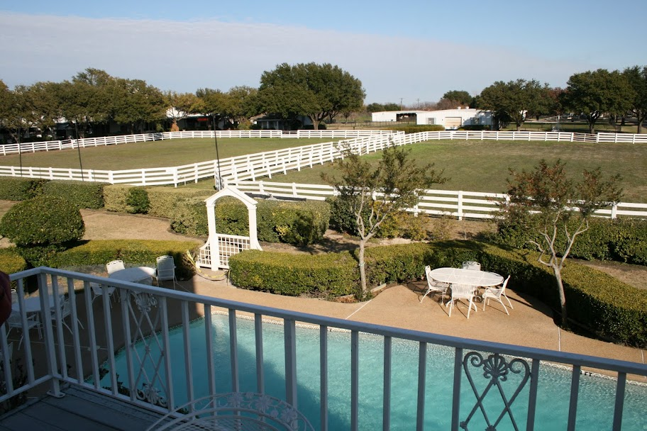 The Ewing family home park (detail), Dallas, Texas